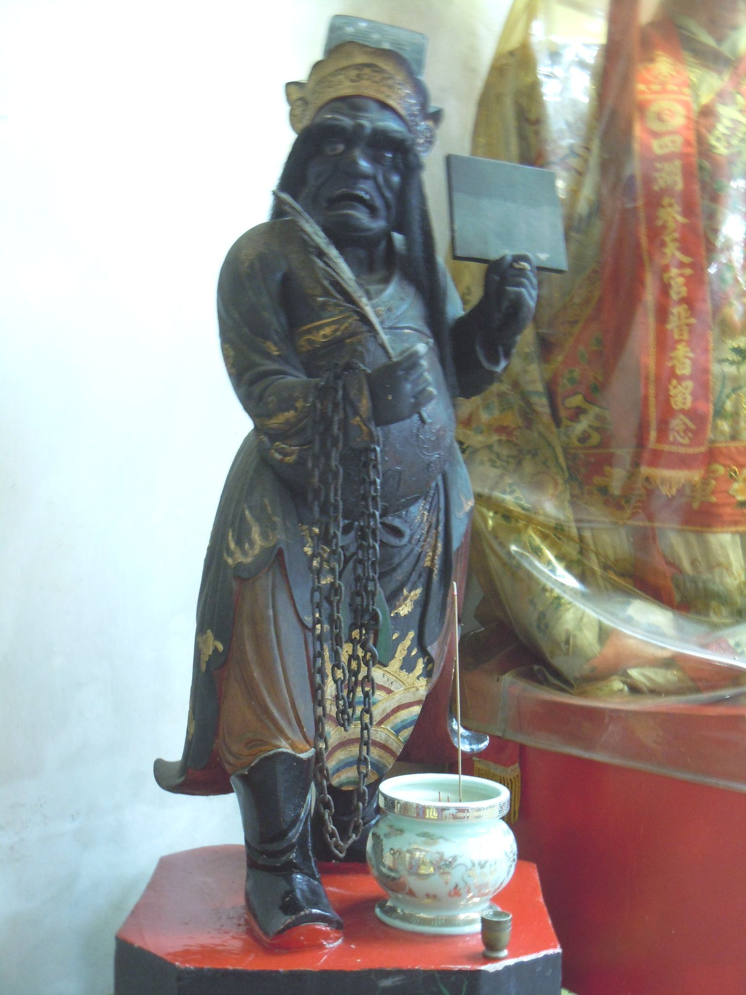 Statue of the Black Guard of Impermanence at a temple in Taichung, Taiwan. Originally uploaded onto the Chinese Wikipedia. Now transferred to Commons.